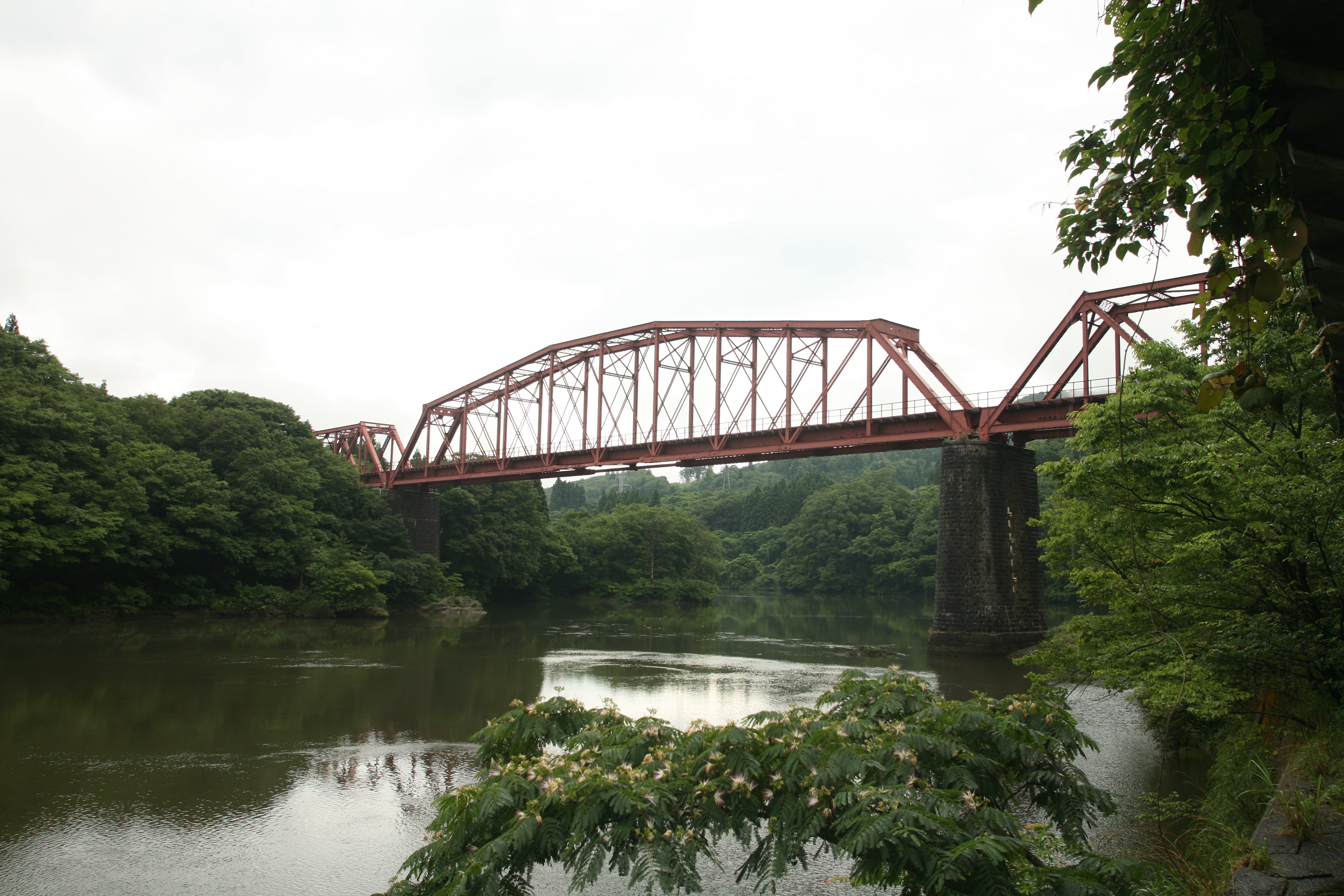 Kamanowaki bridge,JR-East Banetsu-saisen Line.Designed by J.A.L.Wadell,manufactured by American Bridge.This is the first case of cantilever erection method in Japan.